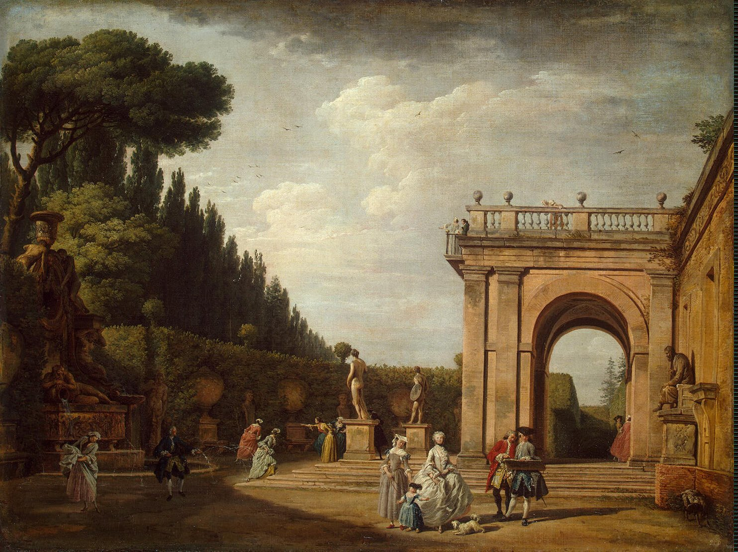 Vernet Claude Joseph - View of the Villa Ludovisi Park in Rome